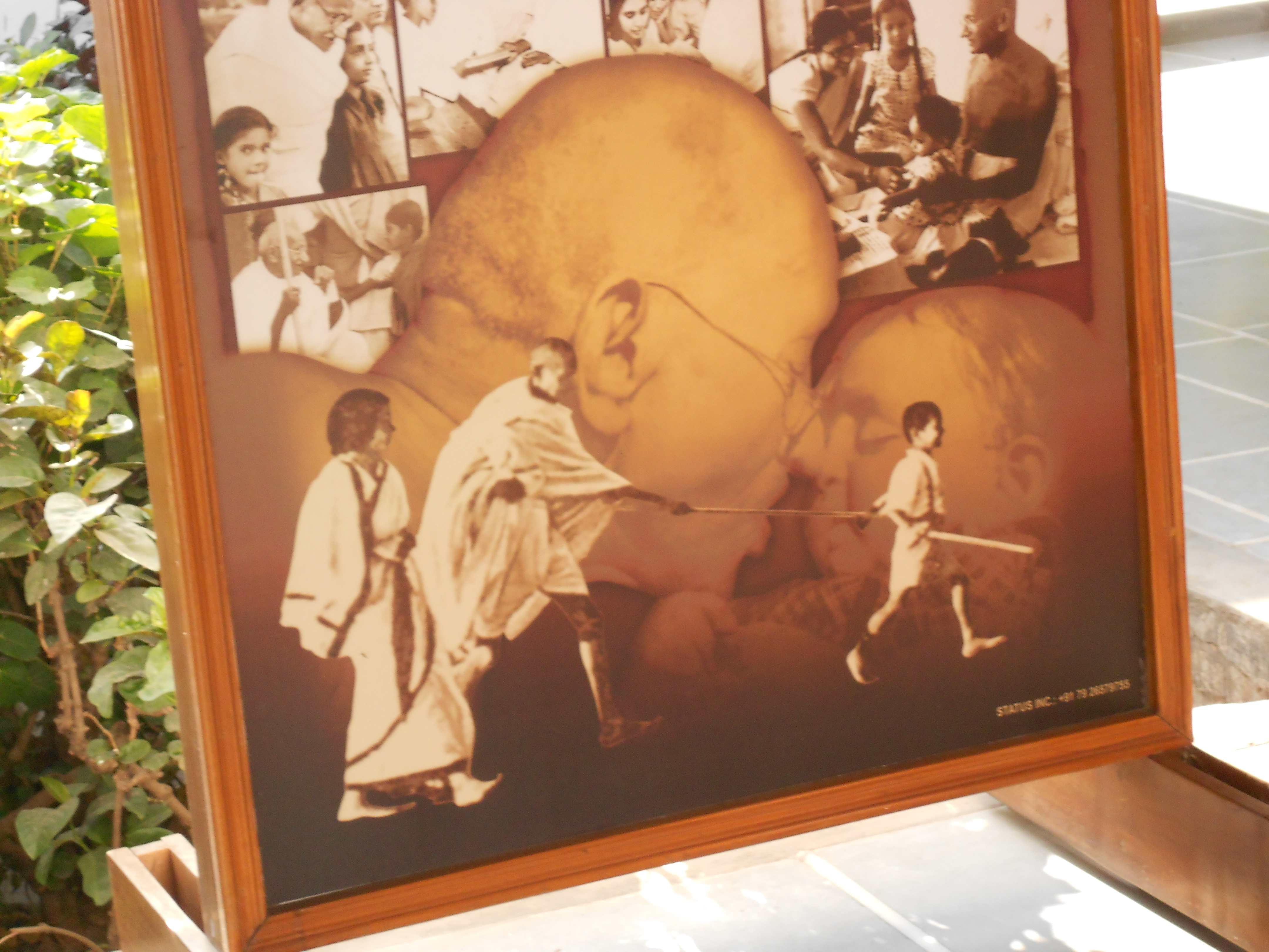 Gandhi bapu shows his love towards kids